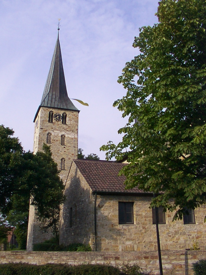 Salzkotten: Catholic Church "St.Georg" in Oberntudorf This is a photograph of an architectural monument.